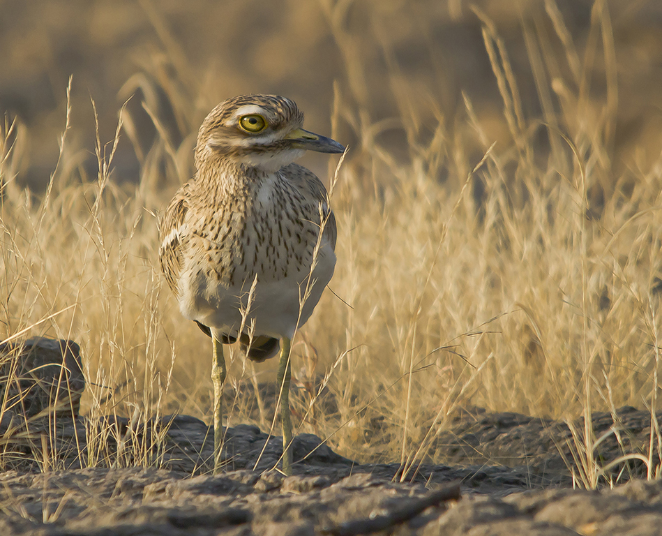 in Grassland